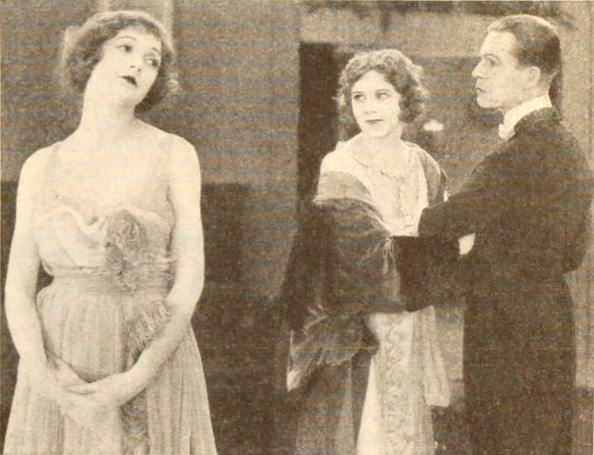 Still from the American comedy romance film Wedding Bells (1921) with Constance Talmadge, Emily Chichester, and Harrison Ford, on page 61 of the November Photoplay.